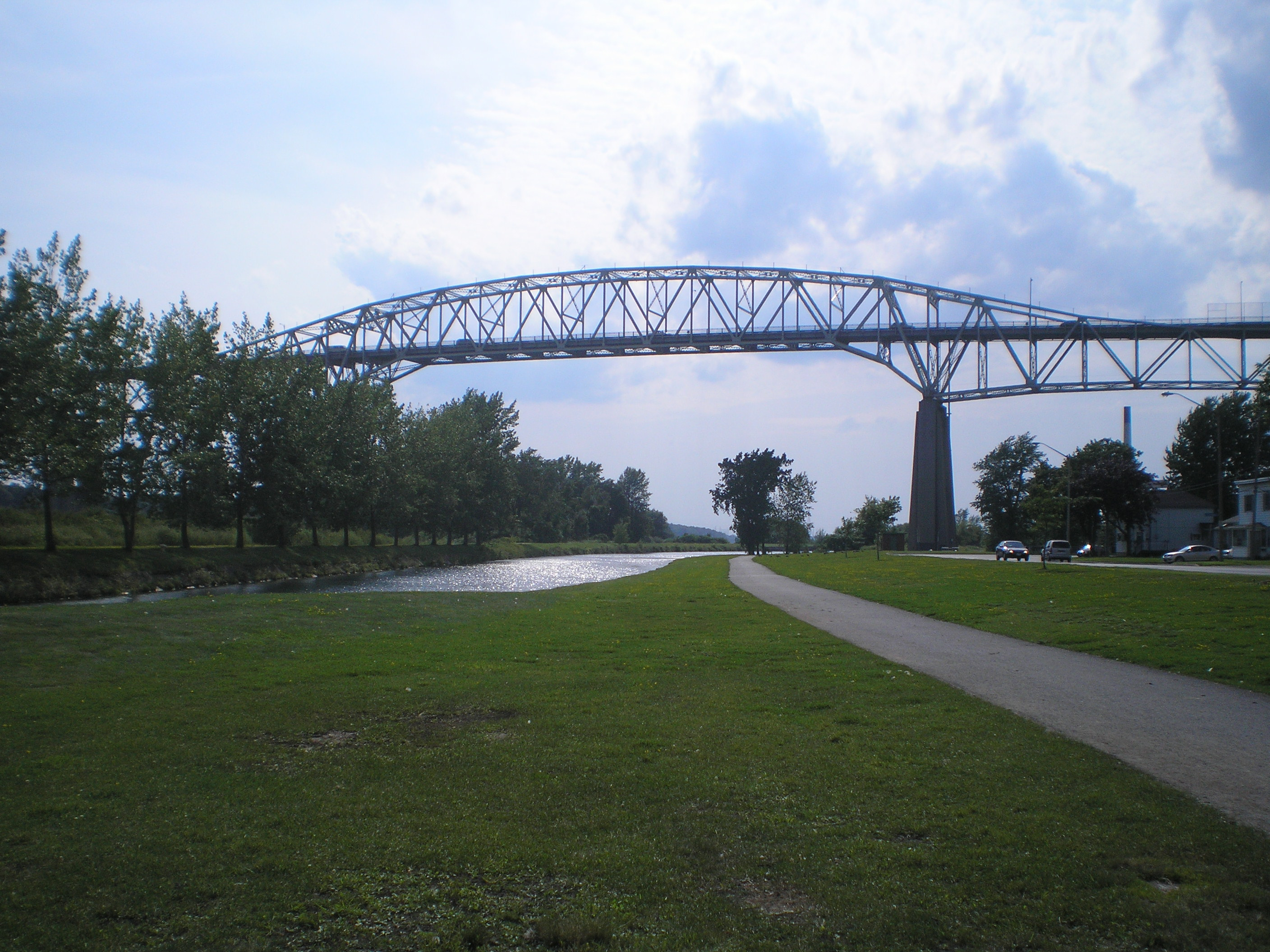 Three Nations Crossing, as seen from Water Street in Cornwall, Ontario.